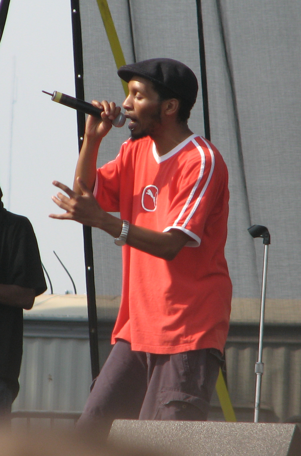 Del Tha Funkee Homosapien performing at the Austin City Limits music festival, September 26, 2008.